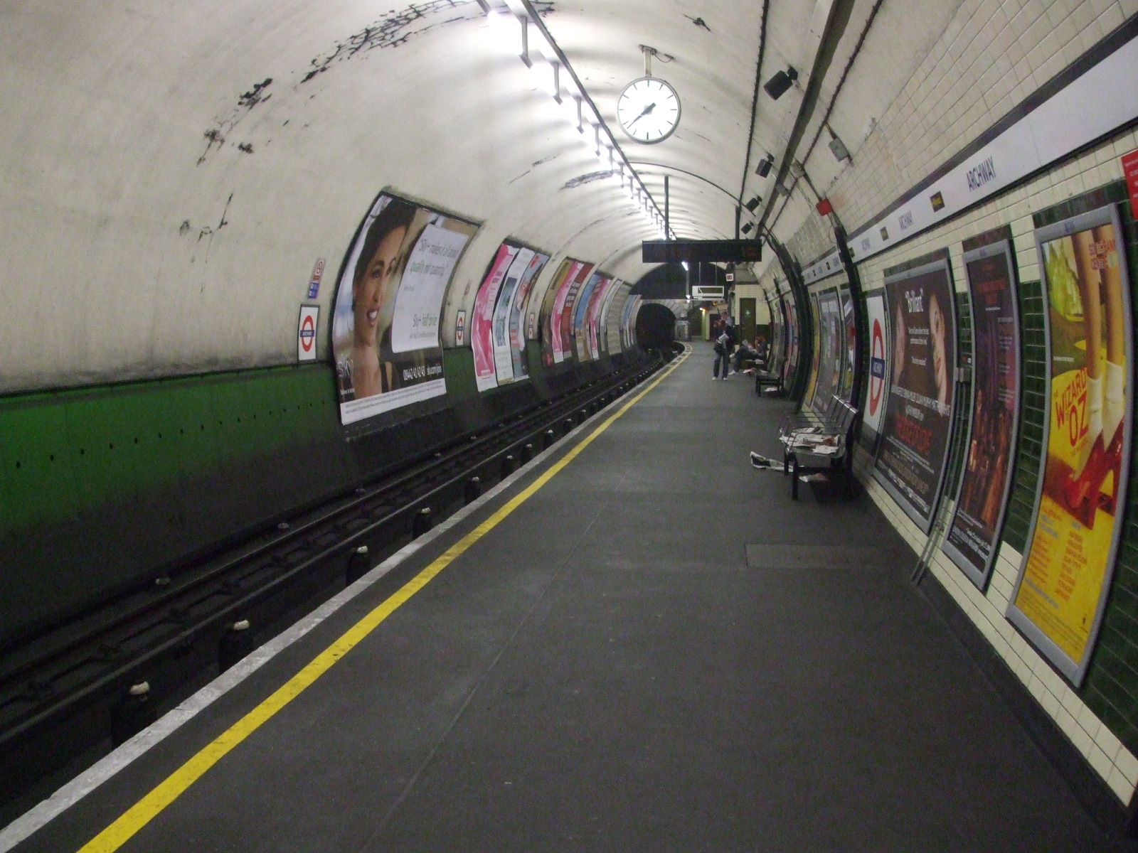 Archway tube station northbound platform, looking north